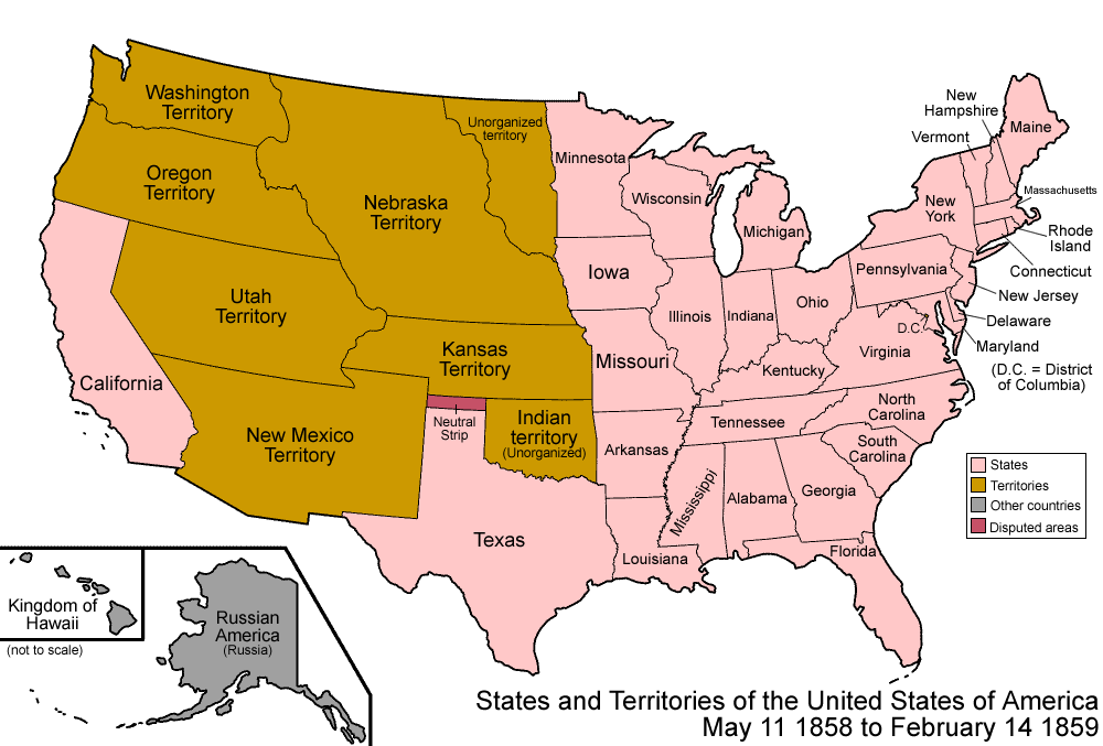 Map of the states and territories of the United States as it was from 1858 to 1859. On May 11 1858, part of Minnesota Territory was admitted as the state of Minnesota, the remainder becoming unorganized. On February 14 1859, part of Oregon Territory was admitted as the state of Oregon, the remainder joining on to Washington Territory.